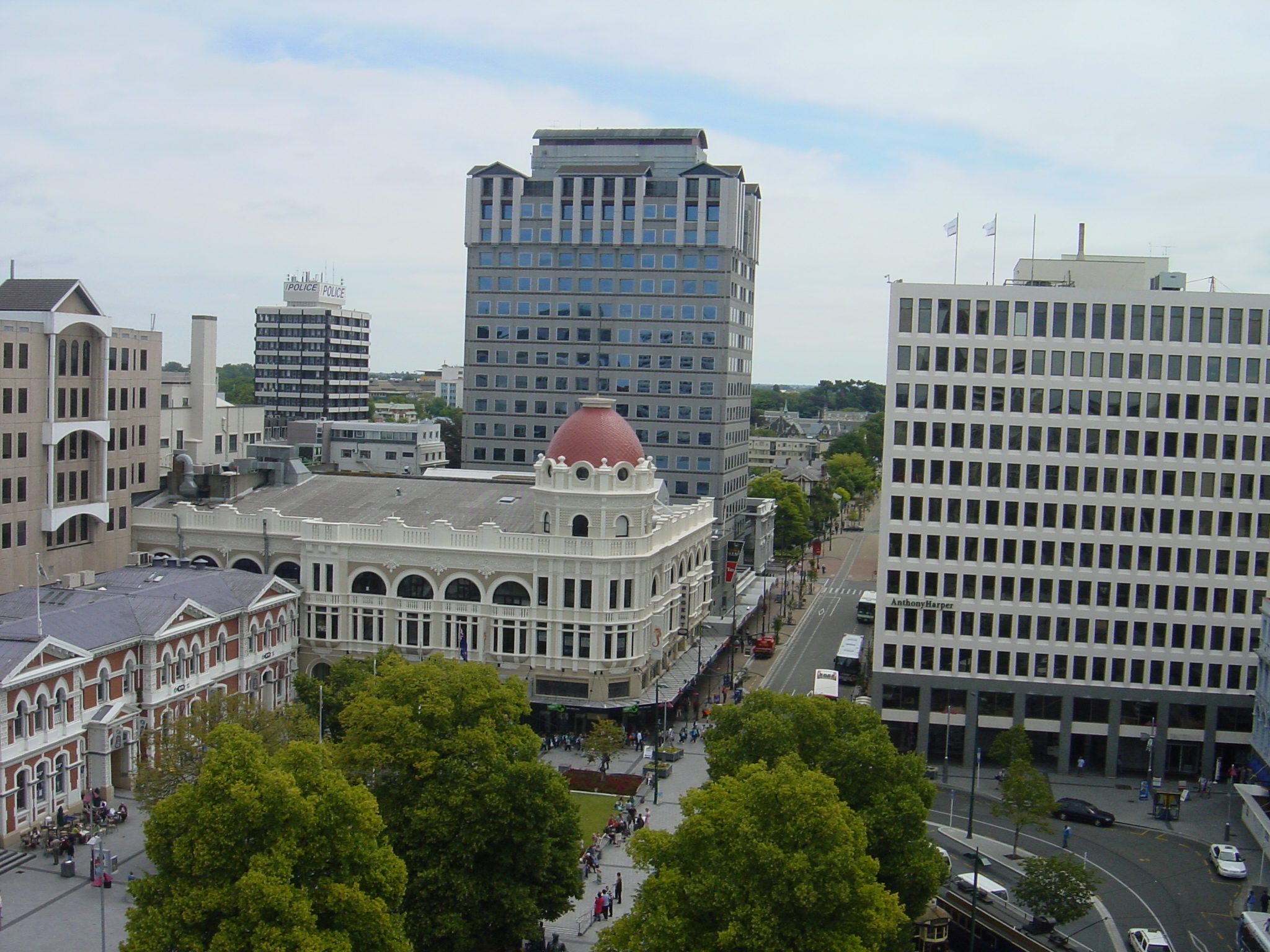 Looking along Worcester Street. The Regent Building originally housed the Royal Exchange. There's a 1905 photo taken during its construction and a 1915 photo from a similar vantage point.